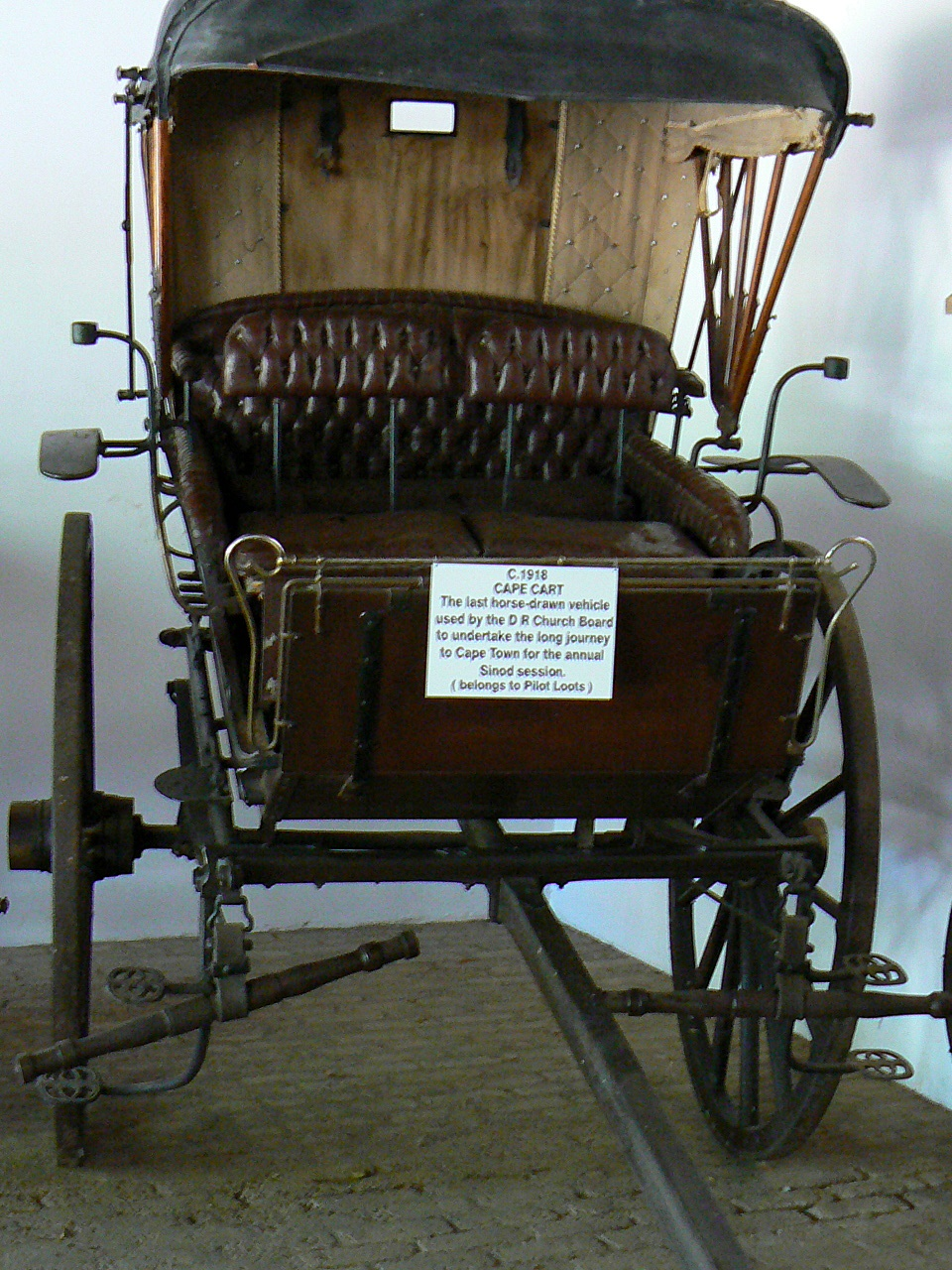 Reinet House, Murray Street, Graaff-Reinet, now a museum complex housing artifacts depicting life in the early years of Graaff-Reinet This media shows a South African Protected Site with SAHRA file reference 9/2/033/0002-575.